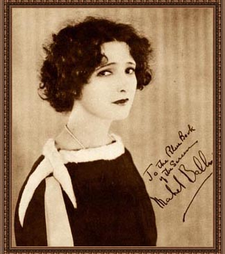 Publicity photo of Mabel Ballin from The Blue Book of the Screen by Ruth Wing, editor